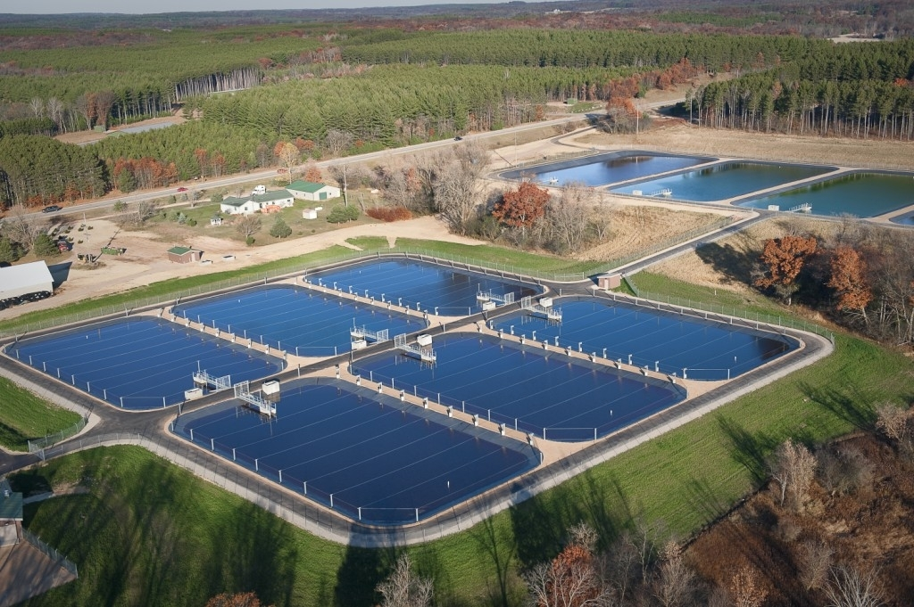 Phase 1 of construction built a nursery for egg incubation and early rearing, a broodstock building, four covered production raceway buildings, new water supply, distribution and water reuse systems that bring the water supply into compliance, a new consolidated, state-of-the-art fish rearing wastewater treatment system and a visitors center. Phase 2 involved the construction of a cool water nursery building for egg incubation, hatching and early rearing and the ability to rear fish under intensive, recirculation conditions, the construction of 14 modern rearing ponds and construction of a water supply and distribution system that includes a high capacity well. Wisconsin DNR Photo.